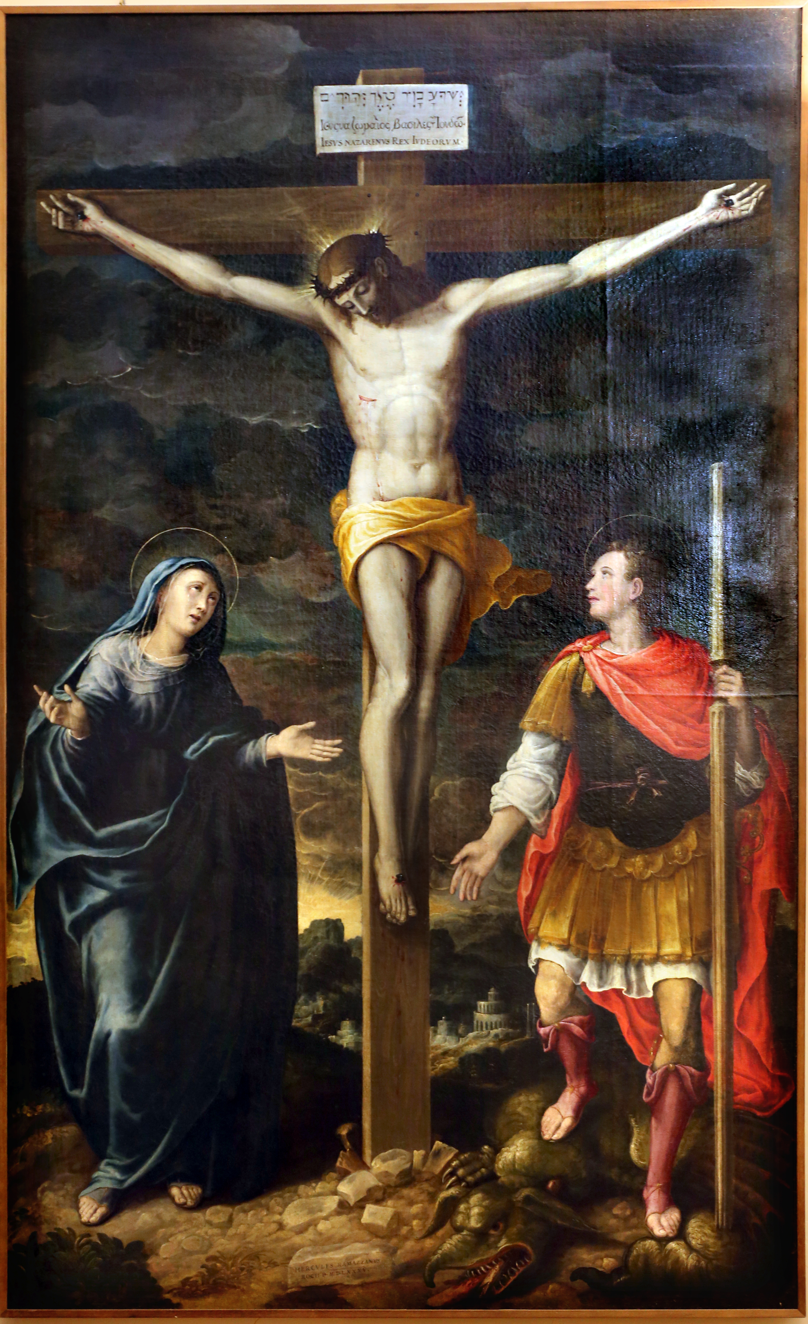 Pinacoteca Diocesana (Senigallia)